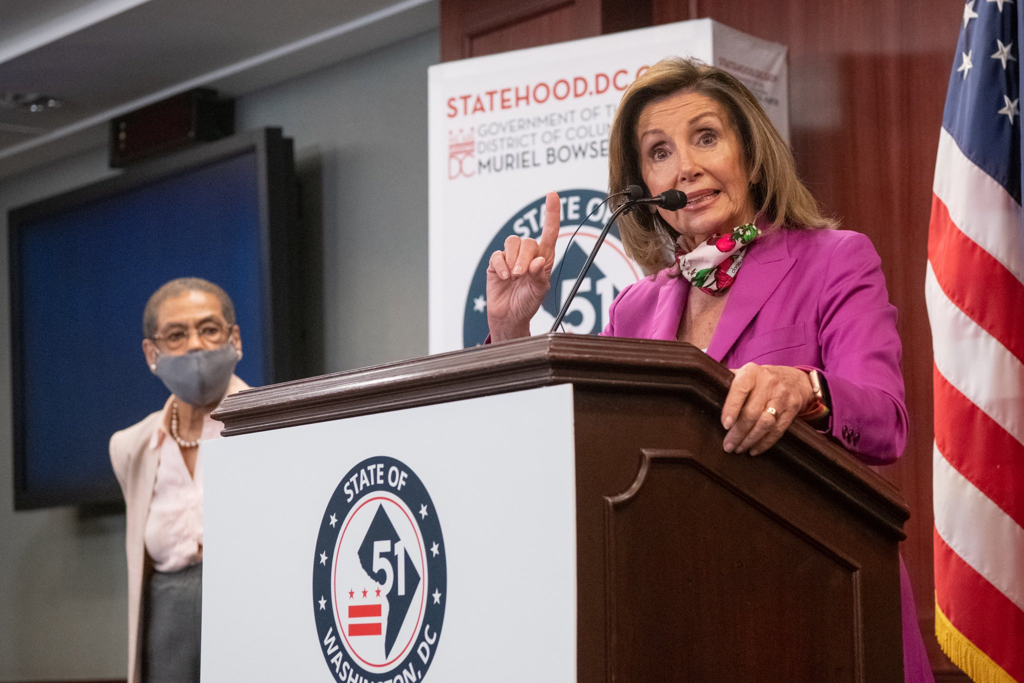 For too long, residents of Washington, DC, have been denied their right to fully participate in our democracy — an injustice put on full display two weeks ago at Lafayette Square. Next week, the House will vote on historic #DCStatehood legislation championed by @EleanorNorton.